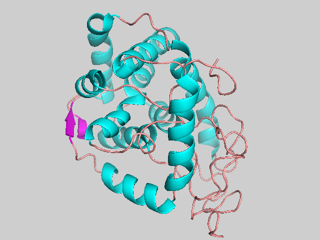 Mouse MIOX from PDB colored by secondary structure element